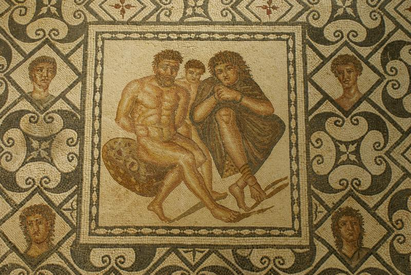 Ancient Roman mosaics in the Tipaza Archaeological Museum, northern Algeria.